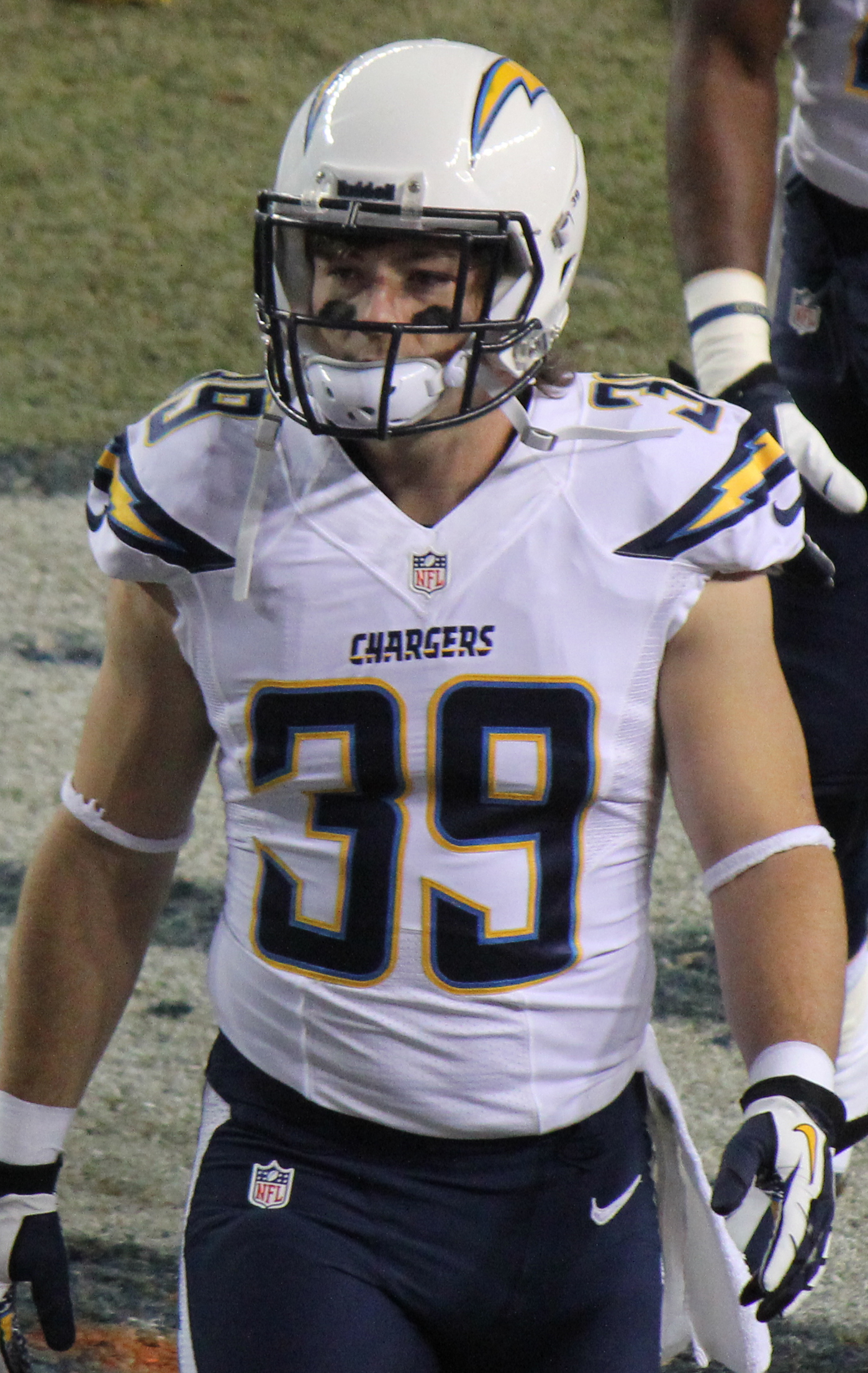 Danny Woodhead, a player on the National Football League.